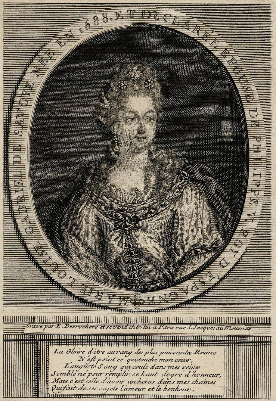 Maria Luisa of Savoy at the time of her marriage